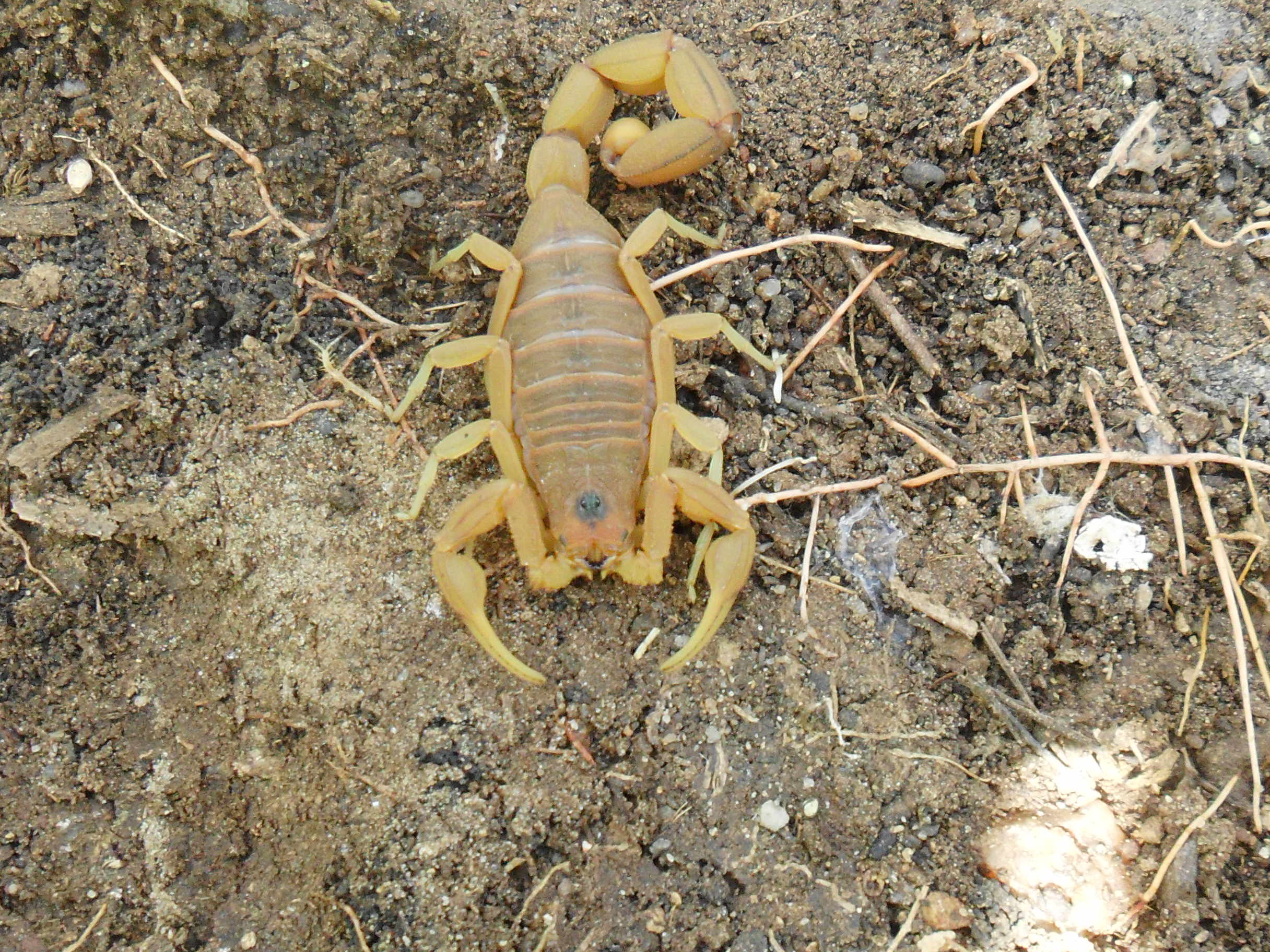 Yellow Scorpion